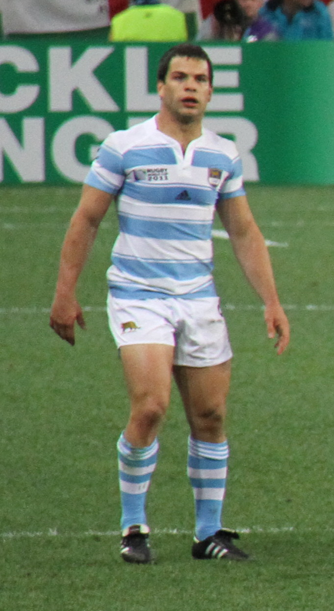 Argentinian rugby union player Nicolás Vergallo during 2011 Rugby World Cup match against England.